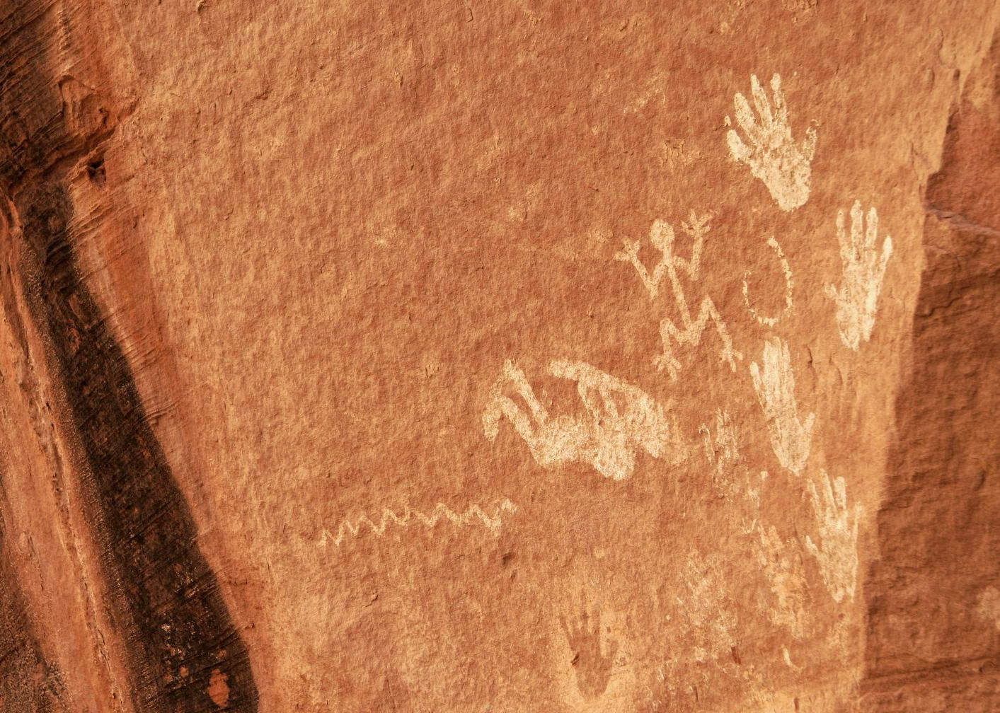 Rock art at Canyon de Chelly National Monument, Arizona, USA. This panel from the so called "Kokopelli cave" shows several hand prints, two of them as negatives, a snake as symbol of earth and fertility, as well as two antropomorph figures. One is a humpback playing the flute while lying on its back, the other is in a squatting position. The humpbacked flute player is a shamanic symbol called "kokopelli" that is well known throughout the American Southwest.